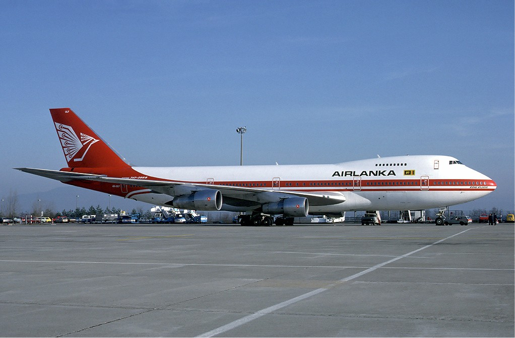 A Boeing 747-200 of Air Lanka at Basle Airport